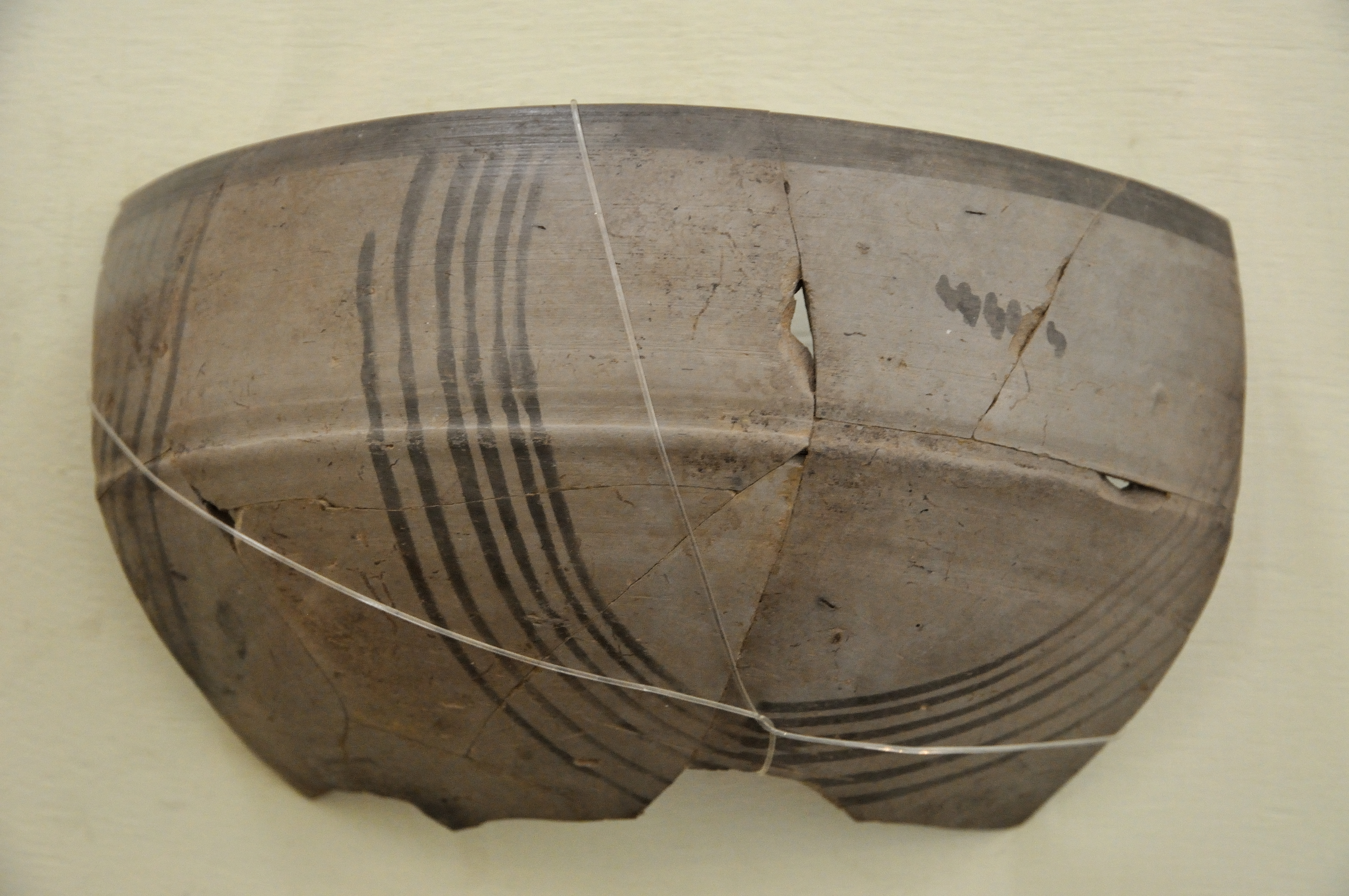 This artefact resides at the Government Museum, (hi: Rashtriya Sangrahalaya) formerly The Curzon Museum of Archaeology, Museum Road or Murari Lal Rajpal road, Dampier Nagar, Mathura, Uttar Pradesh, India. This museum is administrating by the State Government of Uttar Pradesh of India.